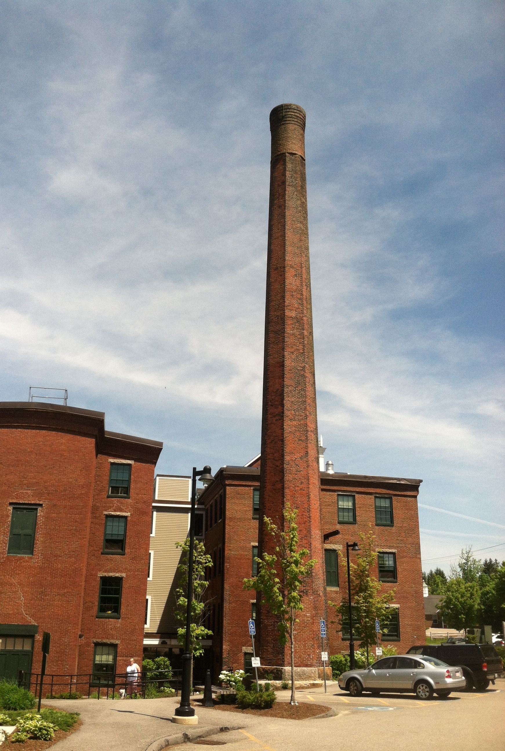 Smokestack of the Olde Woolen Mill on the Great Works River, which connects to one of the earliest steam engines in the United States, and the only one of its kind to survive